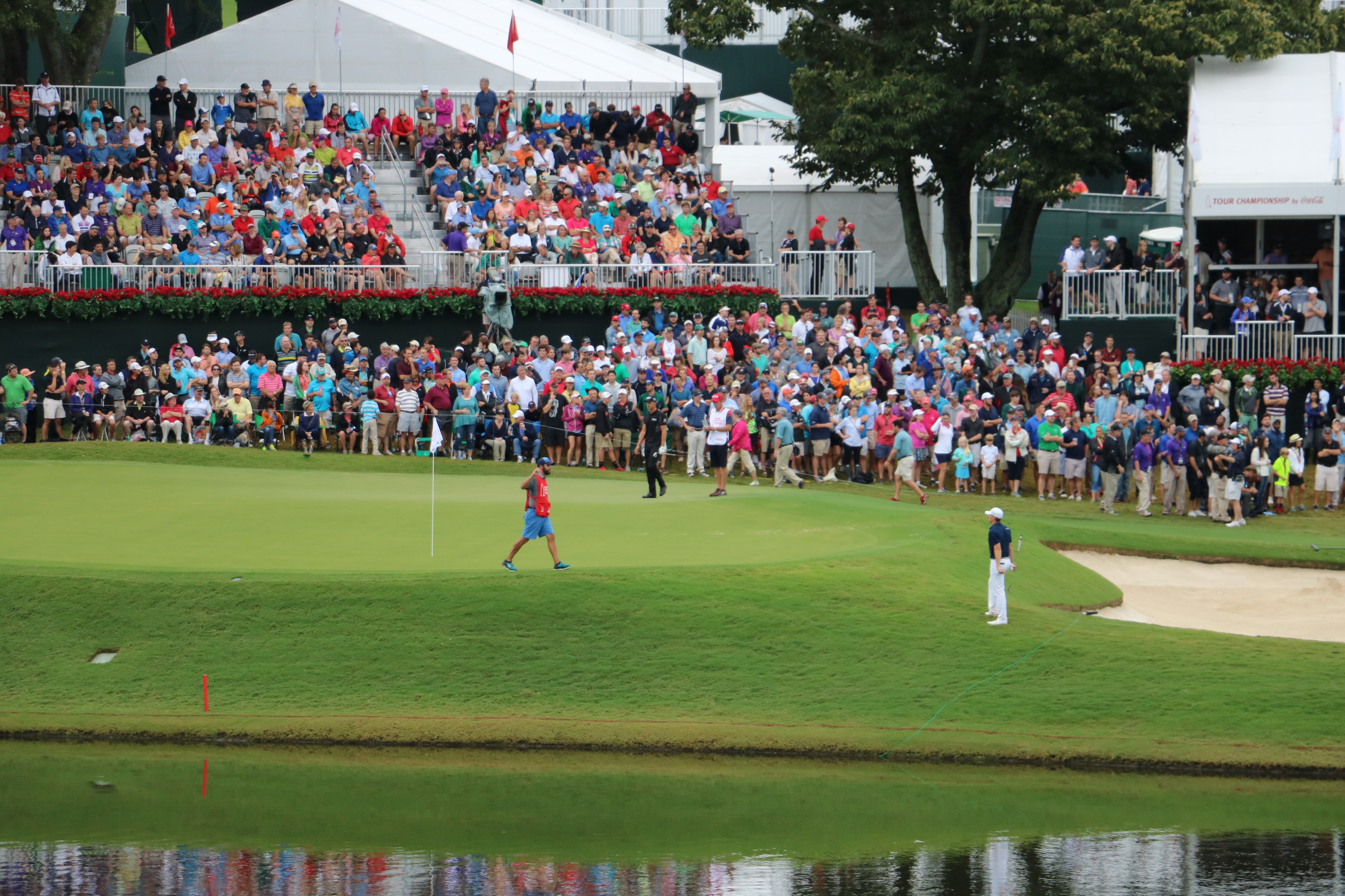 Jordan Speith and Henrik Stenson on the 17th Green during the 2015 TOUR Championship at East Lake Golf Club